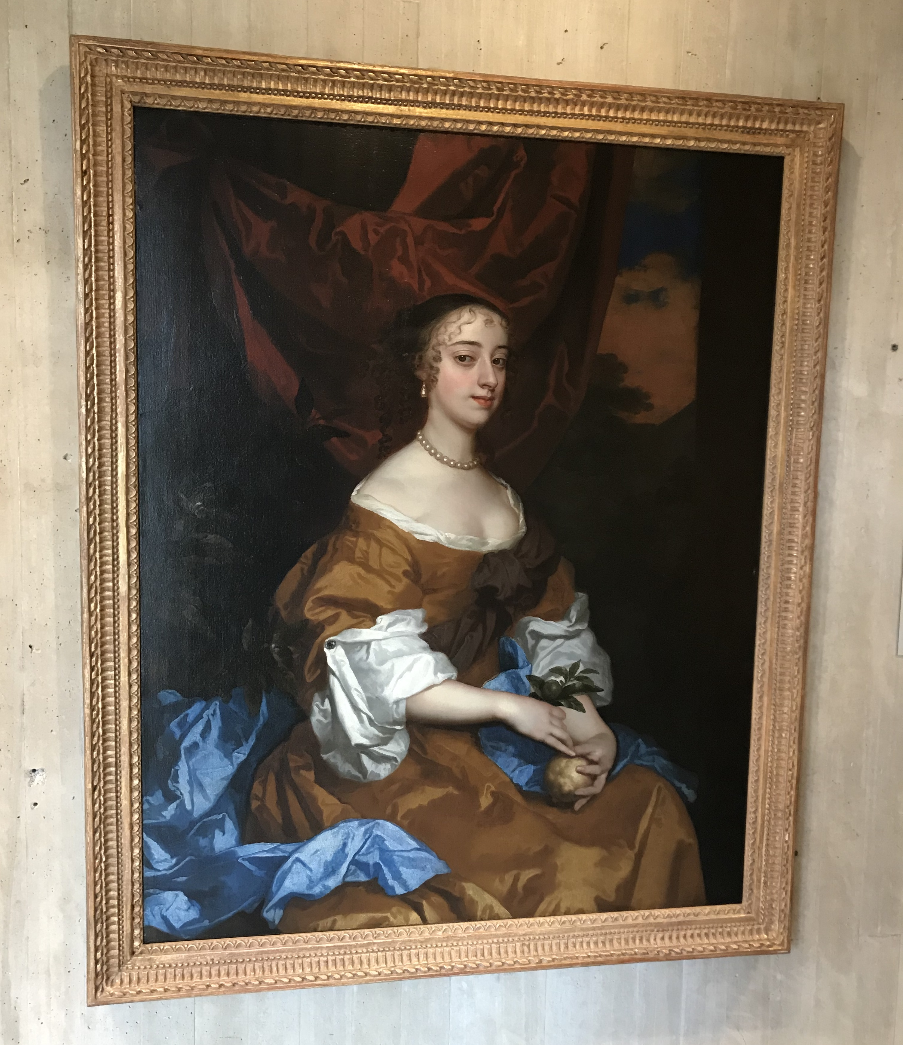 A 1672 portrait of Margaret Hughes (oil on canvas) by Sir Peter Lely.